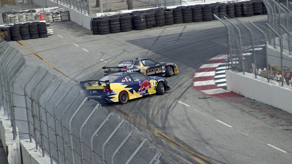 Need for Speed Formula Drift event April 2nd, 2006.